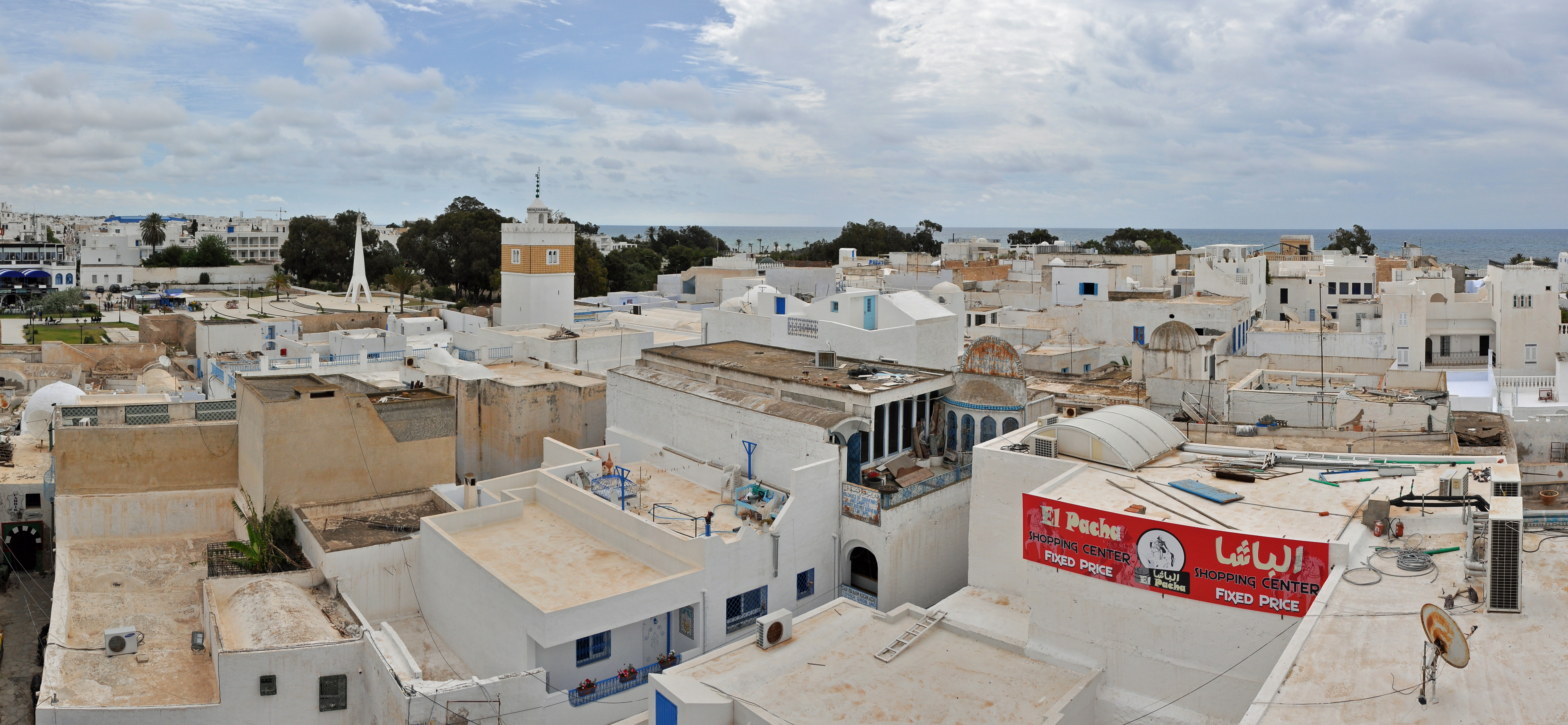 Hammamet (Tunisia): the medina (old town)